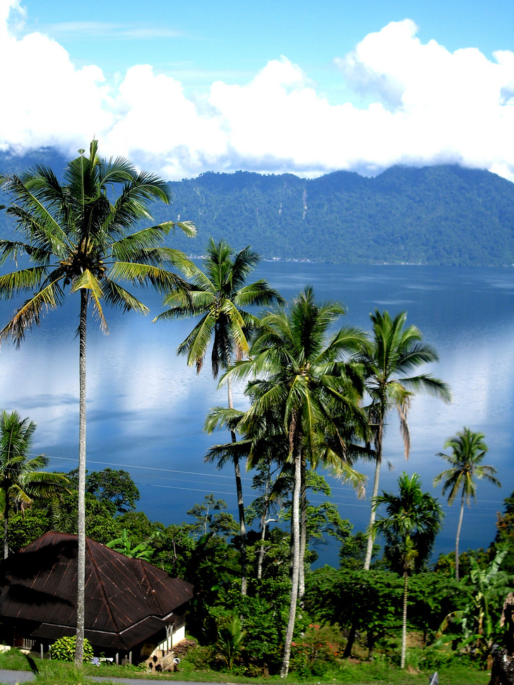 Lake Maninjau, West Sumatra, Indonesia